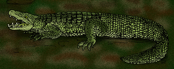 Reconstruction of the Late Pliocene to Pleistocene mekosuchine crocodile, Volia vitiensis, of prehistoric Fiji.